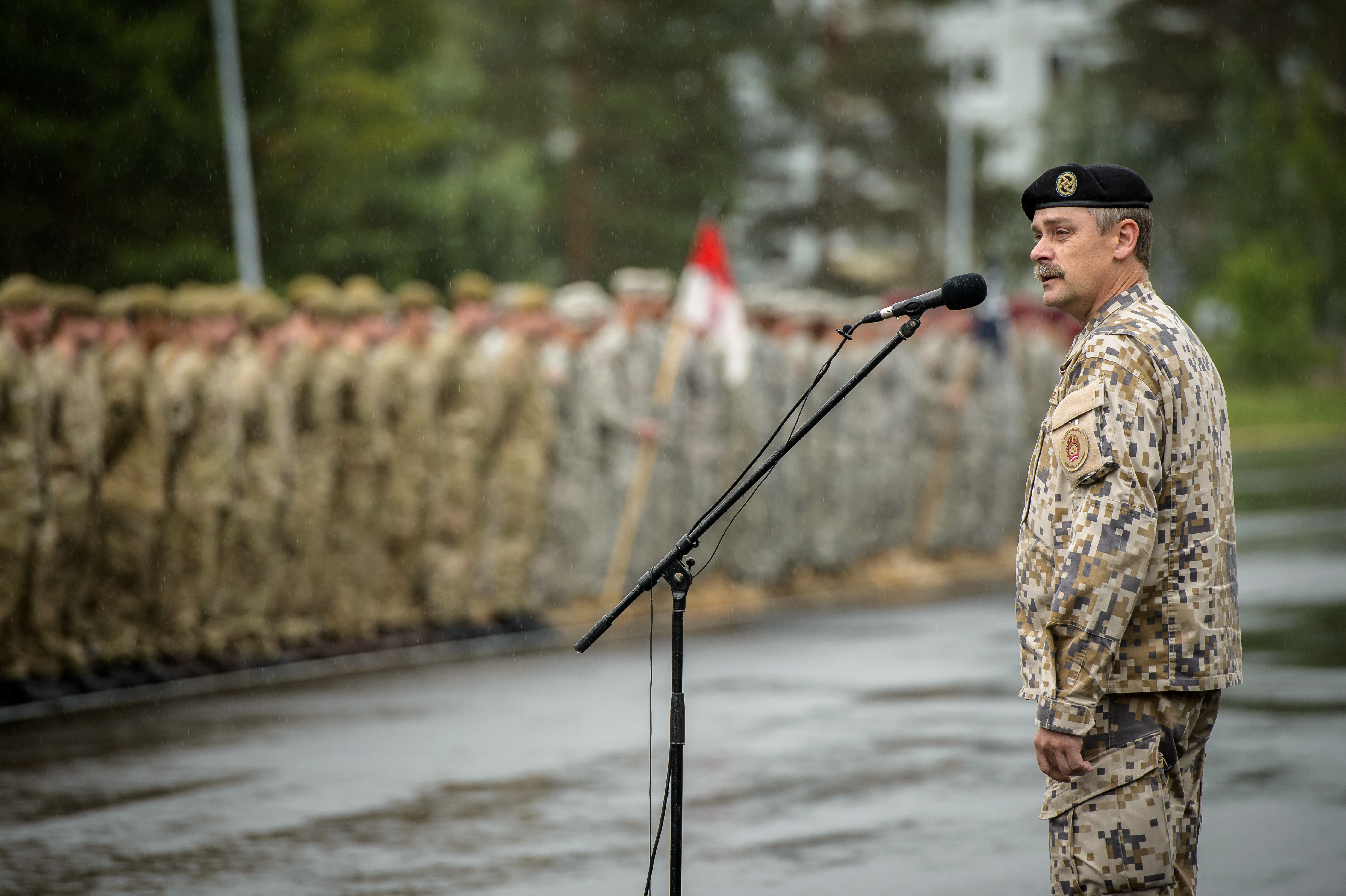 Latvian Brig. Gen. Ainars Ozolins, Exercise Co-director of the Saber Strike Exercise, gives closing remarks at the closing ceremony of Saber Strike 2014 at Adazi Training Area, Latvia on June 20, 2014. Saber Strike 2014 is a joint, multi-national military exercise scheduled for June 9-20. The exercise spans multiple locations in Lithuania, Latvia and Estonia, and involves approximately 4,500 personnel from 10 countries. The exercise is designed to promote regional stability, strengthen international military partnerships, enhance multinational interoperability and prepare participants for worldwide contingency operations. (U.S. Army National Guard photo by: Staff Sgt. Brett Miller, 116 Public Affairs Detachment/ Released)